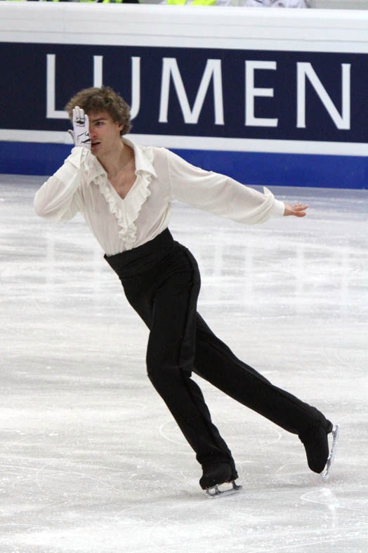 Kim Lucine at the 2011 European Figure Skating Championships.